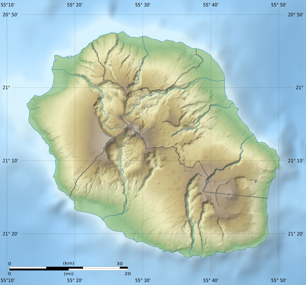 Blank physical map of the region and department of Réunion, France, for geo-location purpose.